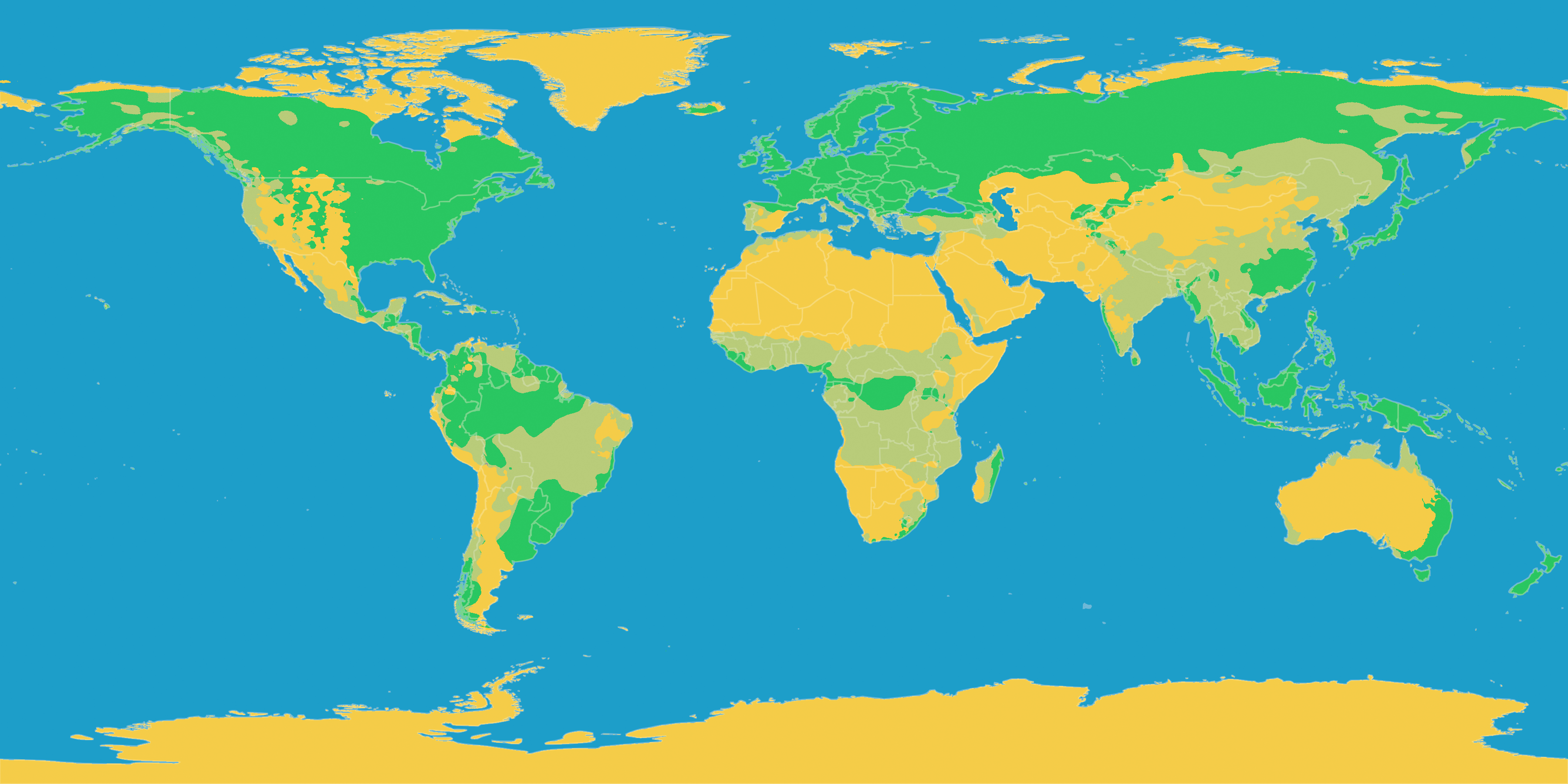 This map shows the climates of the Earth basing on humidity values. Humid climate Semi-arid climate Arid climate